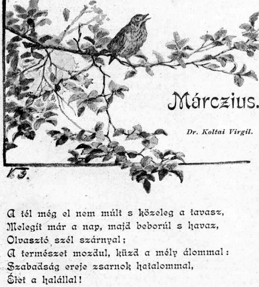 Poem of Koltai Virgil